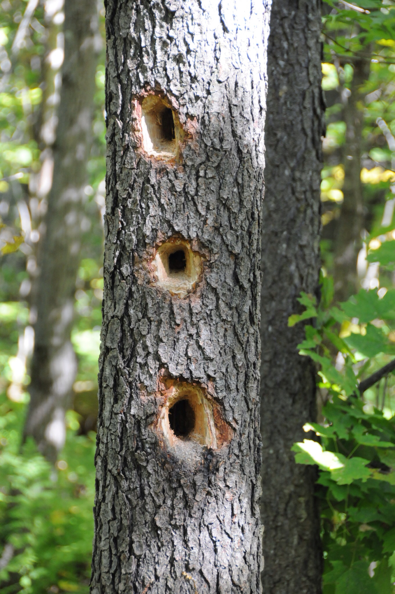 Three holes bored in tree by woodpeckers. Gatineau Park, Quebec. The title of this work at its source is: Three Holes Bored.